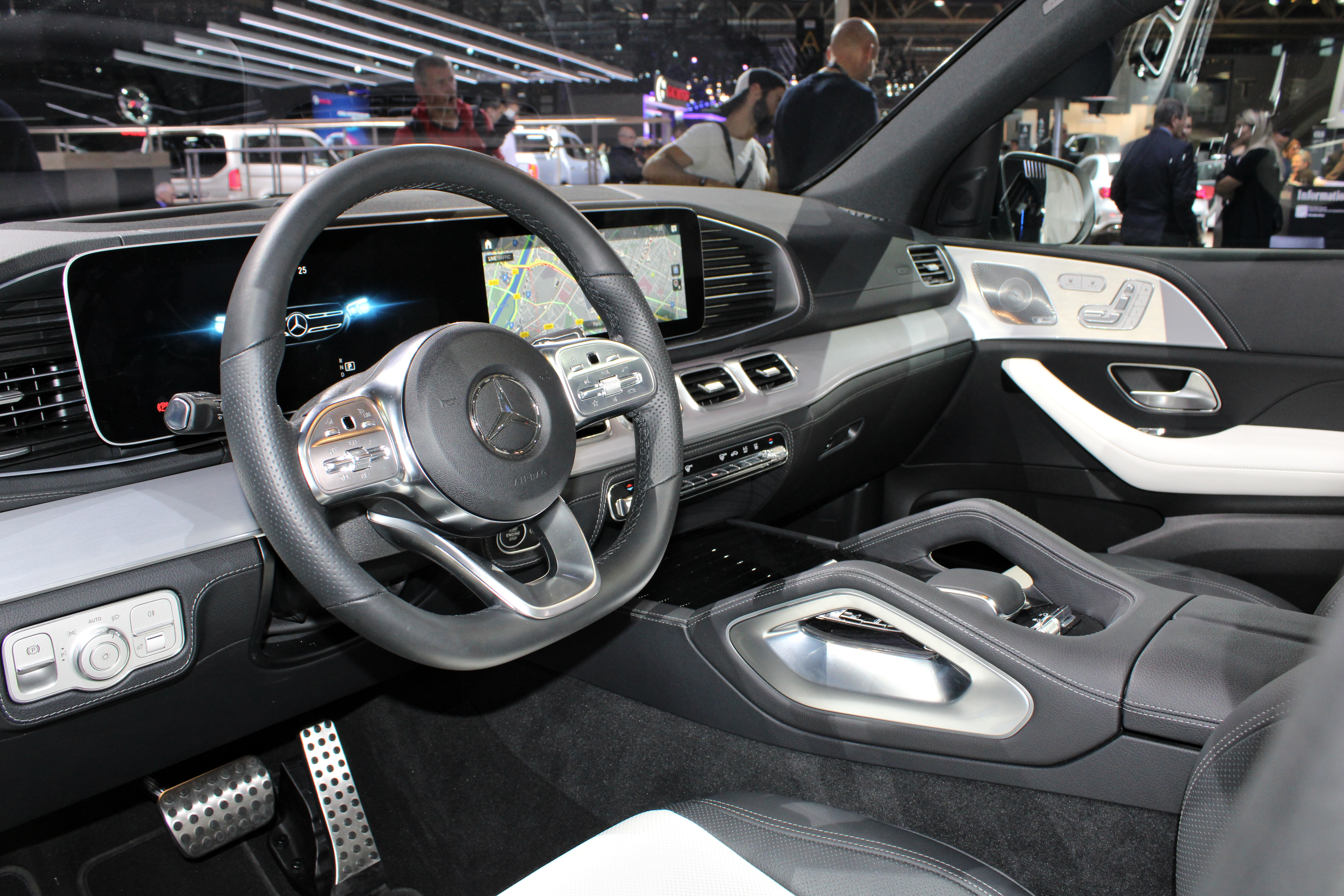 Mercedes-Benz W167 at Paris Motor Show 2018